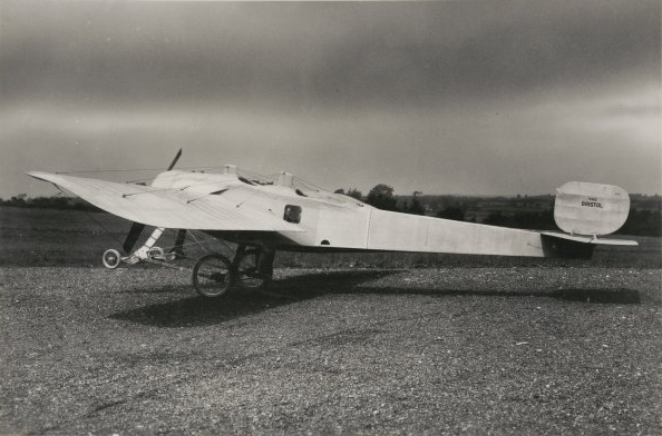 A Bristol Coanda monoplane, ca. 1912.